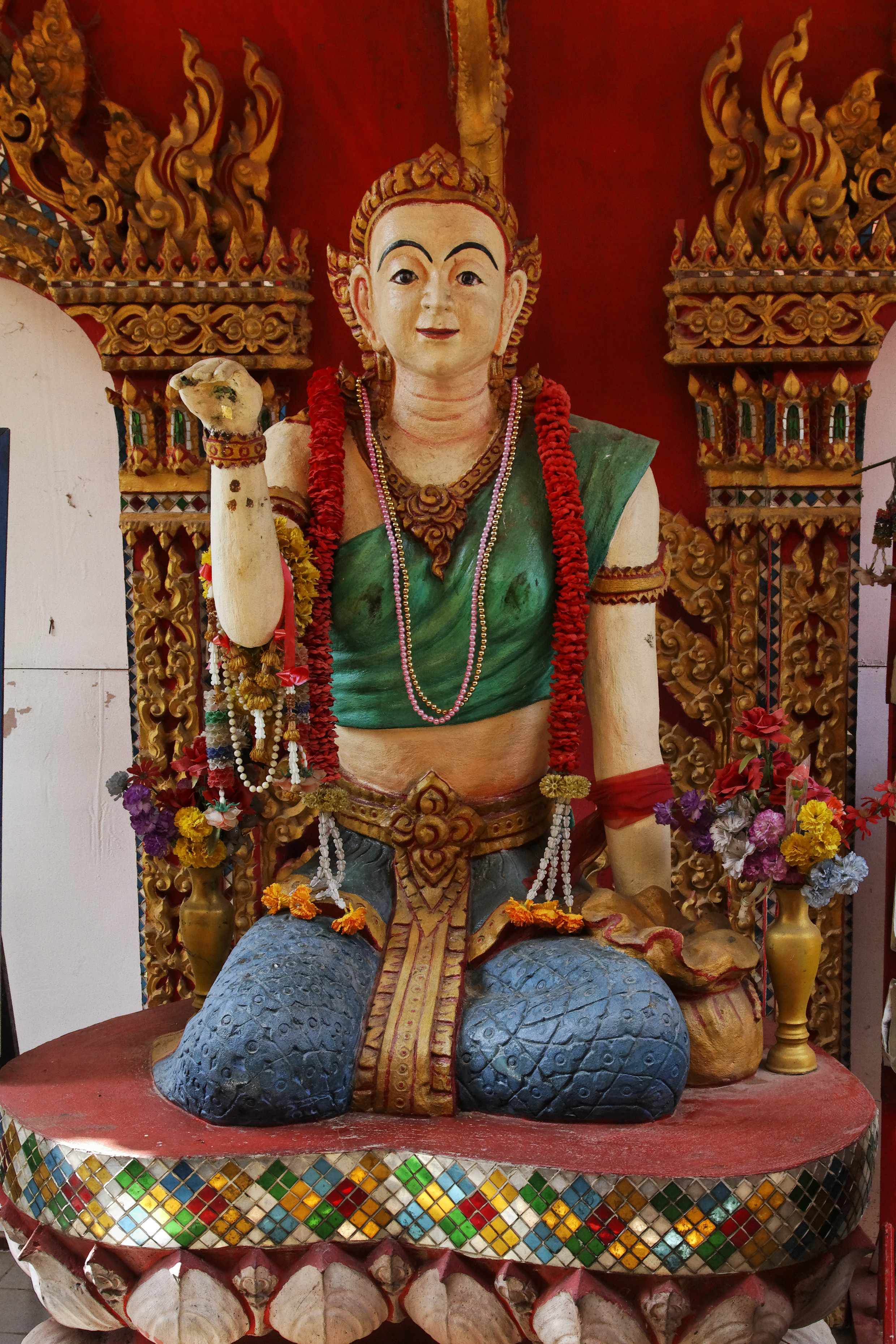 Wat Phra That Ruang Rong is a buddhist temple located in the Province of Sisaket